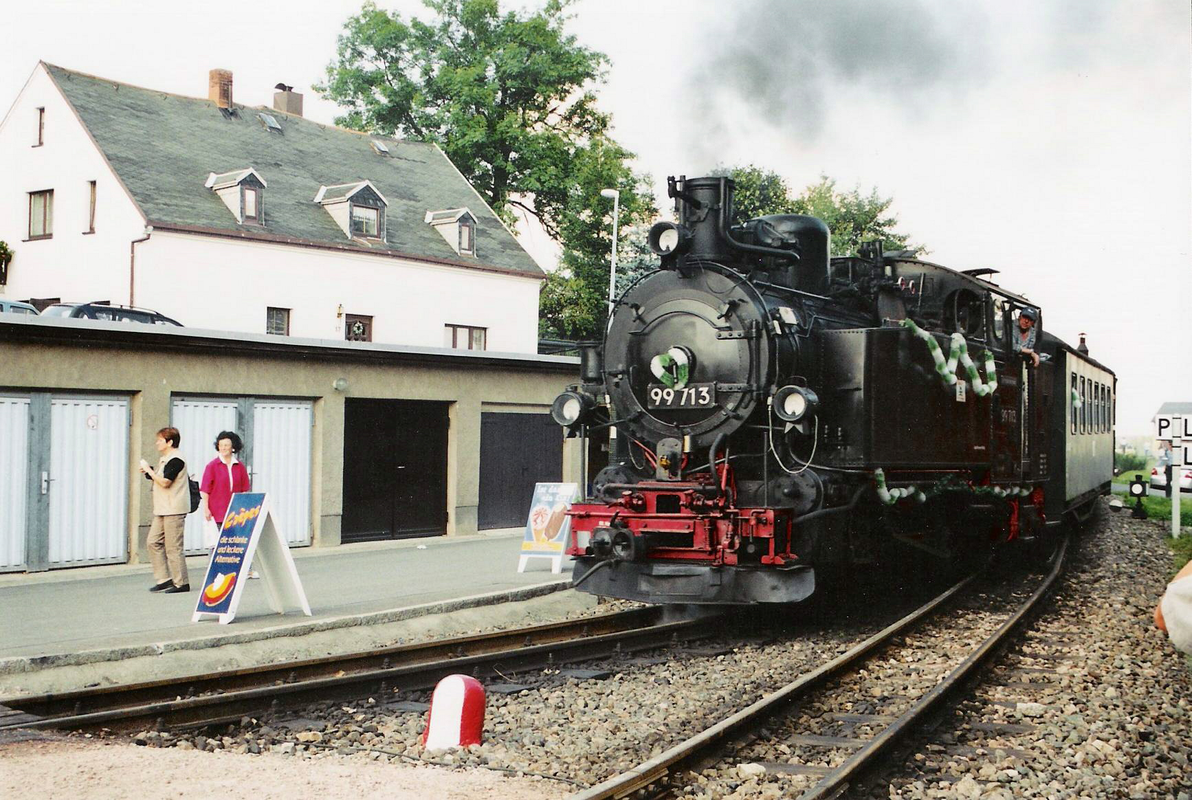 VI K 99 713 of the narrow gauge railway Schönheide-Stützengrün arrives at Schönheide.